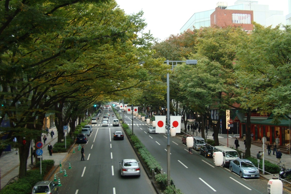 Omote-sando Street with its street trees of Japanese Zelkova, or Keaki, in Shibuya Ward, Tokyo. The Omotesando Hills complex is on the left side of the street in this picture.